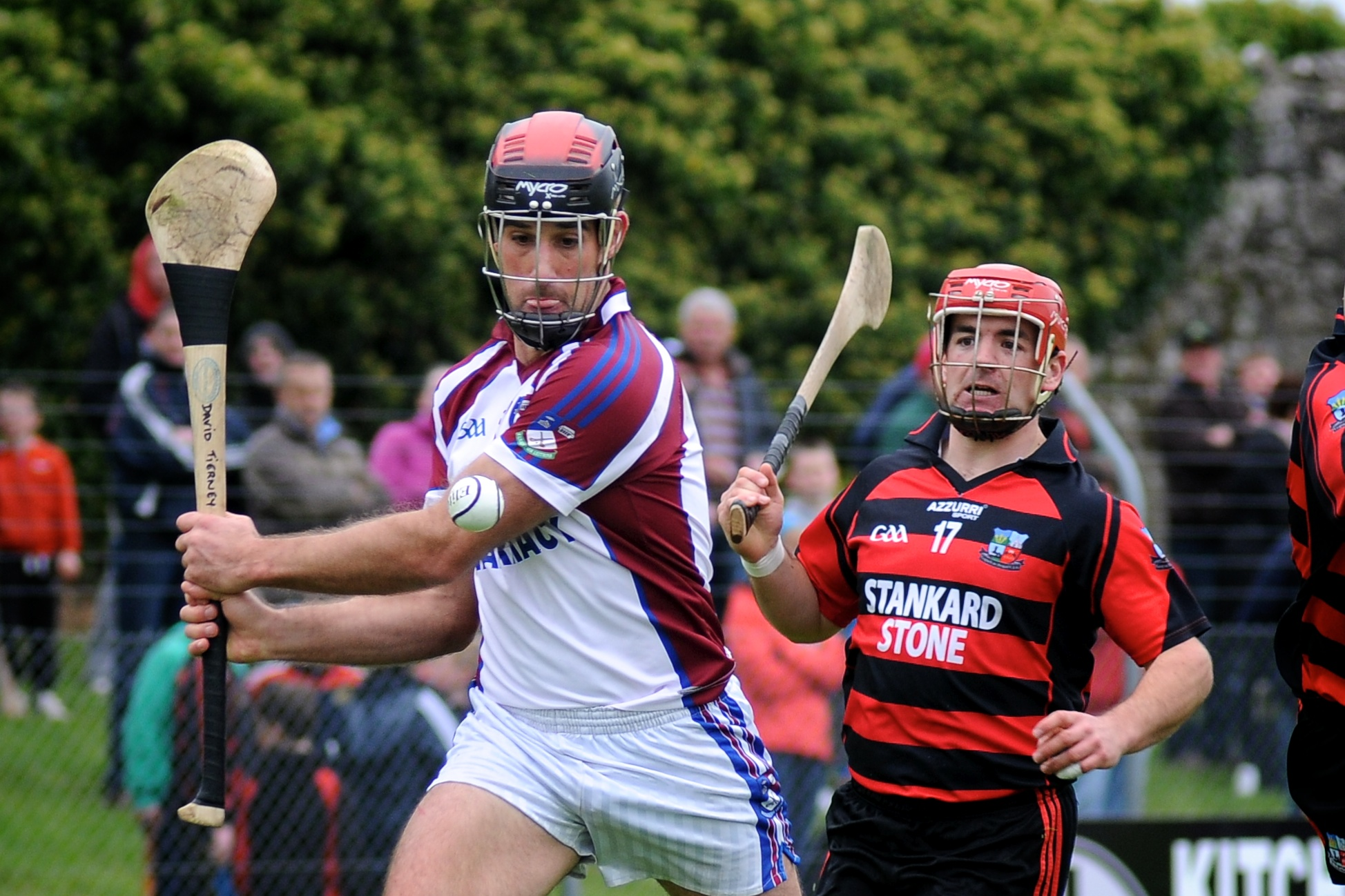 David Tierney playing for Kilnadeema-Leitrim in the 2013 Galway Intermediate Hurling final evades Cappataggle's Brian Byrnes